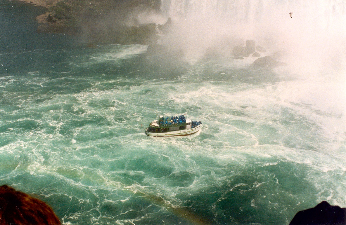 Niagara Falls